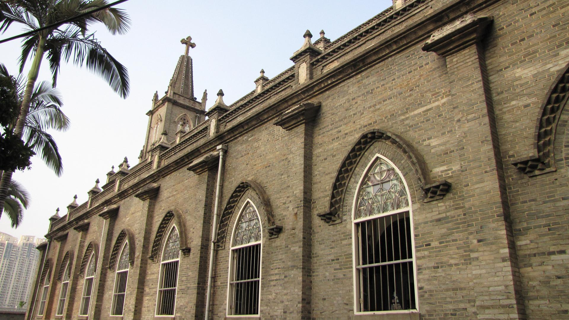 Saint Dominic Cathedral of Fuzhou (Fanchuanpu Cathedral)